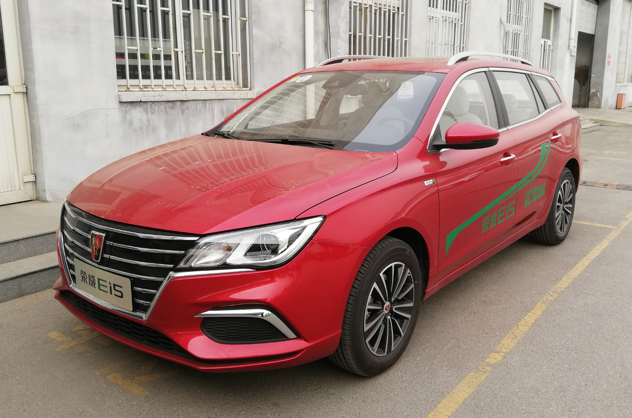 Roewe Ei5 photographed in Beijing, China.